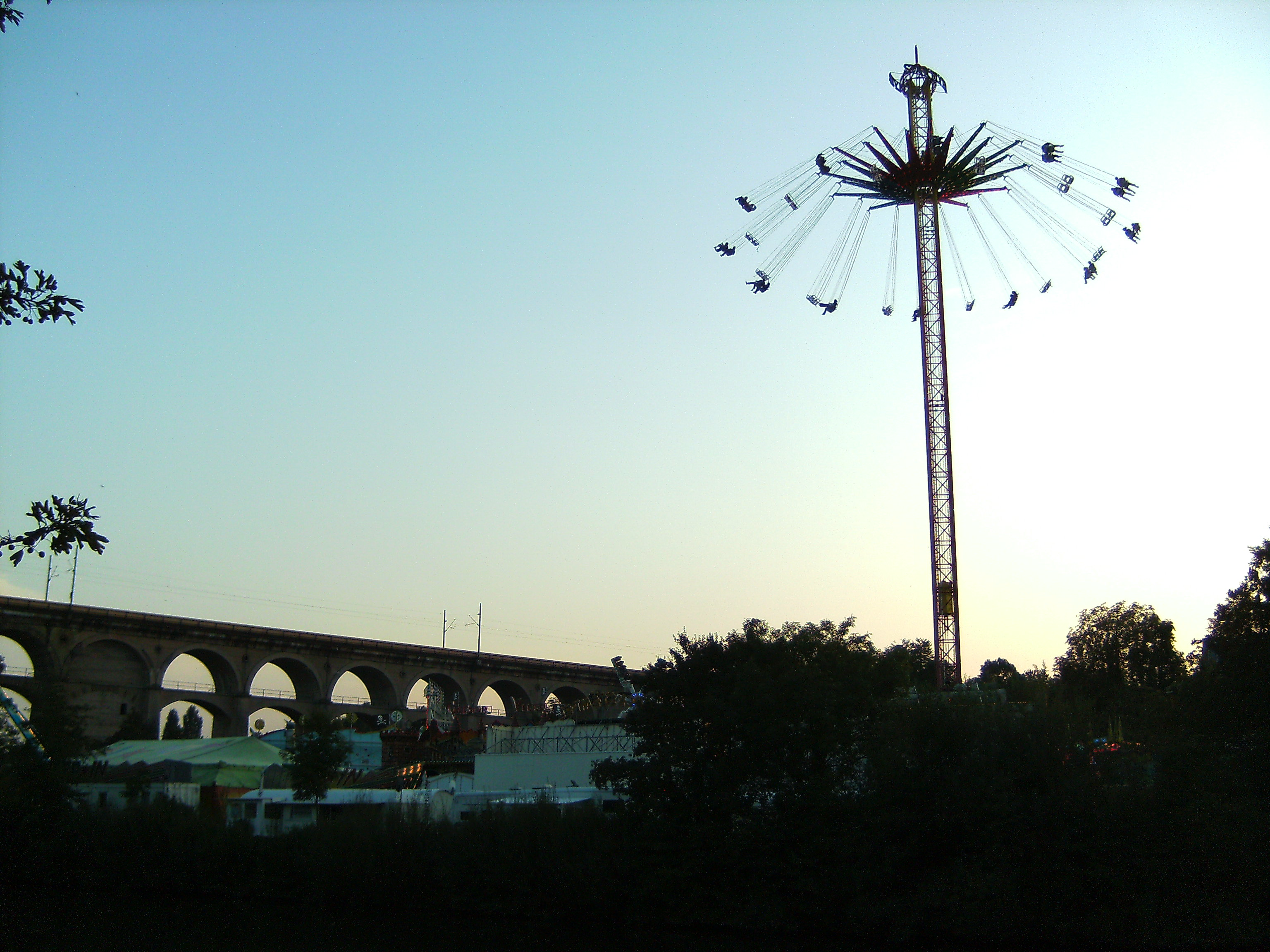 Bietigheim Horse Market on September 7th, 2009. The large ride on the right is Star Flyer